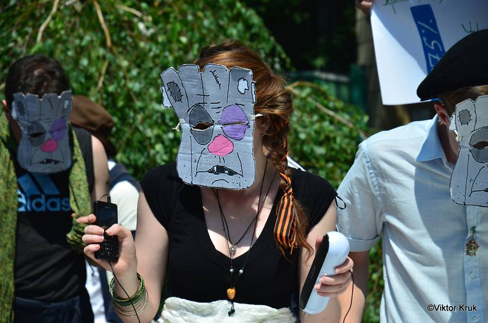 Performance as protest against artists of Russia who supporting Russian government policy against Ukraine, "Boycott Russian Films" campaign. Used the image of Vatnik. Near Ministry of Culture of Ukraine in Kyiv.